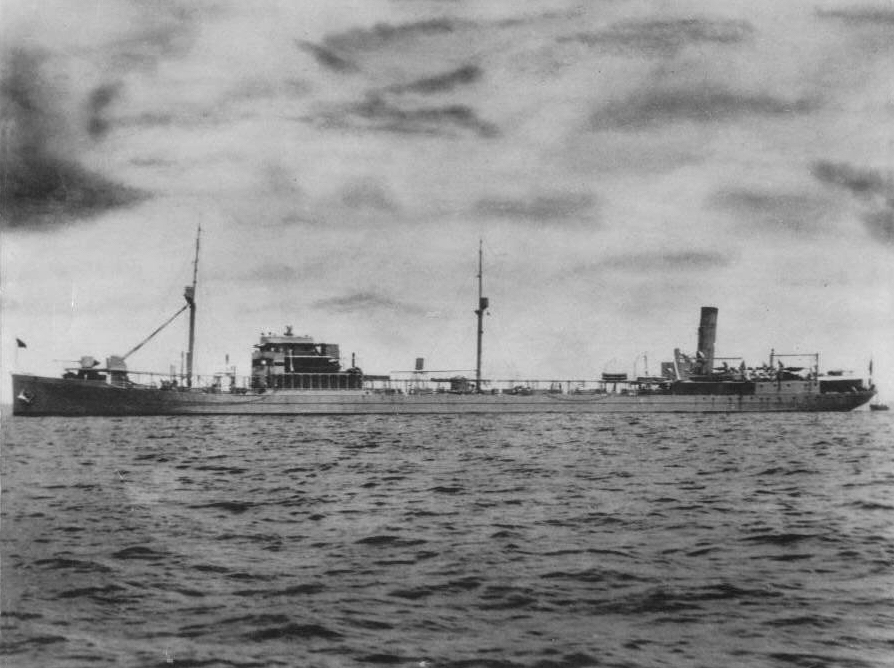 The U.S. Navy fleet oiler USS Trinity (AO-13).